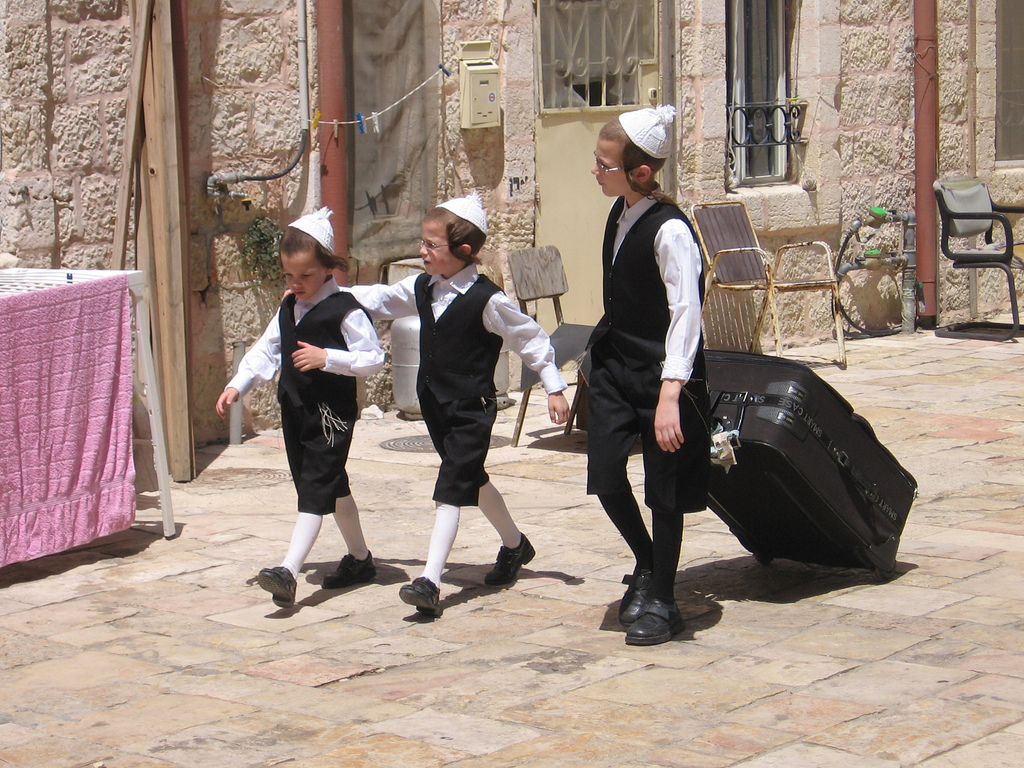 Toldos Aharon kids prepare for Shabbat, Mea Shearim, Jerusalem